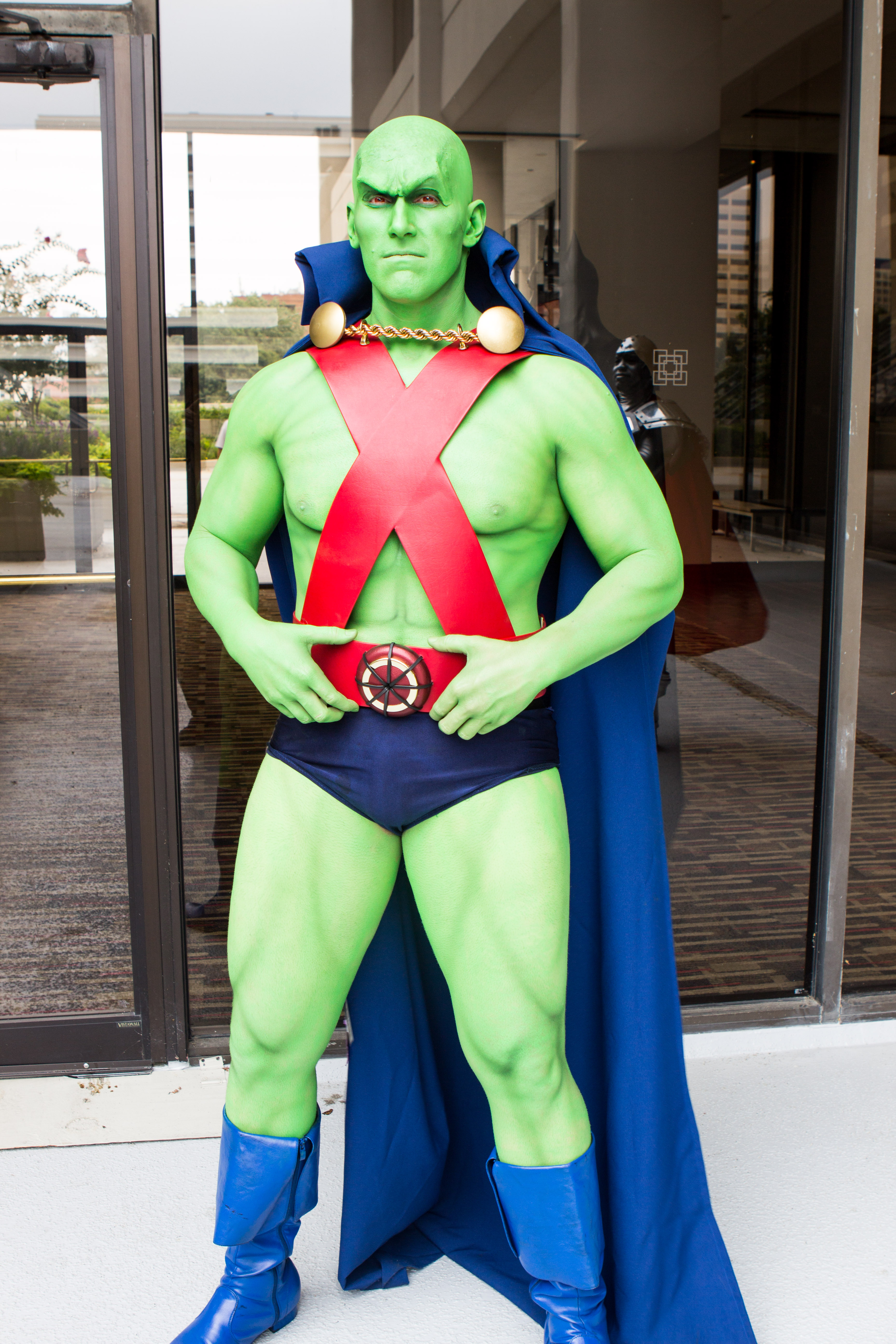 KalEl NC Sean cosplaying as Martian Manhunter (from DC Comics) at Dragon*Con 2013.